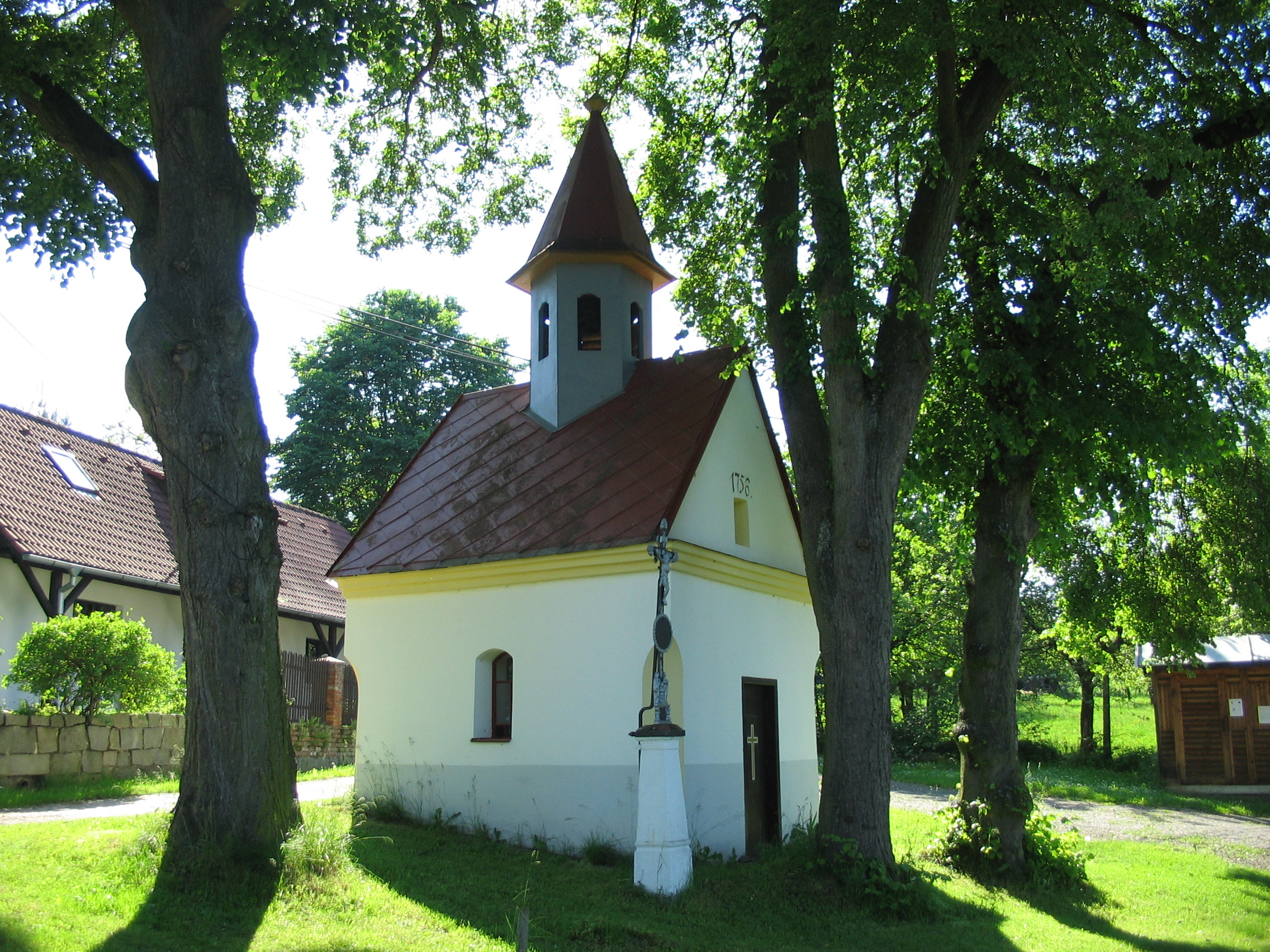 Chapel in Víska, Strakonice District, Czech Republic